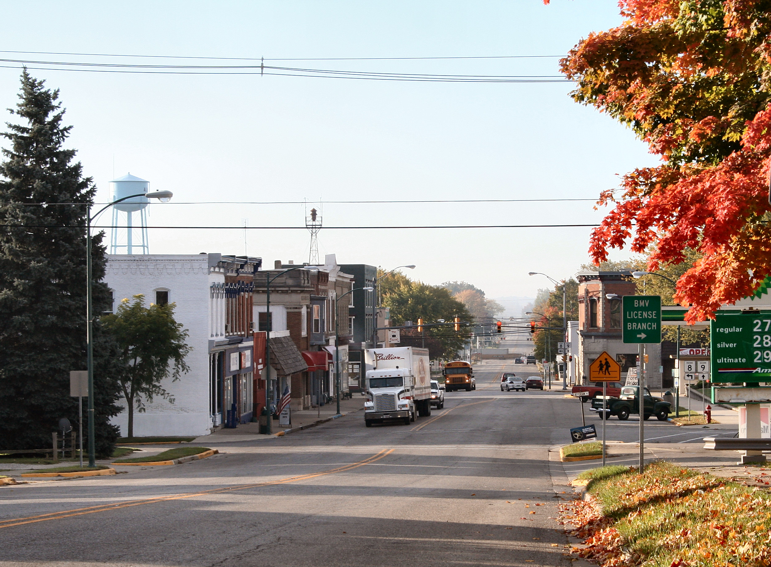 Albion, Indiana downtown. Photo shot by Derek Jensen (Tysto), 2005-October-17